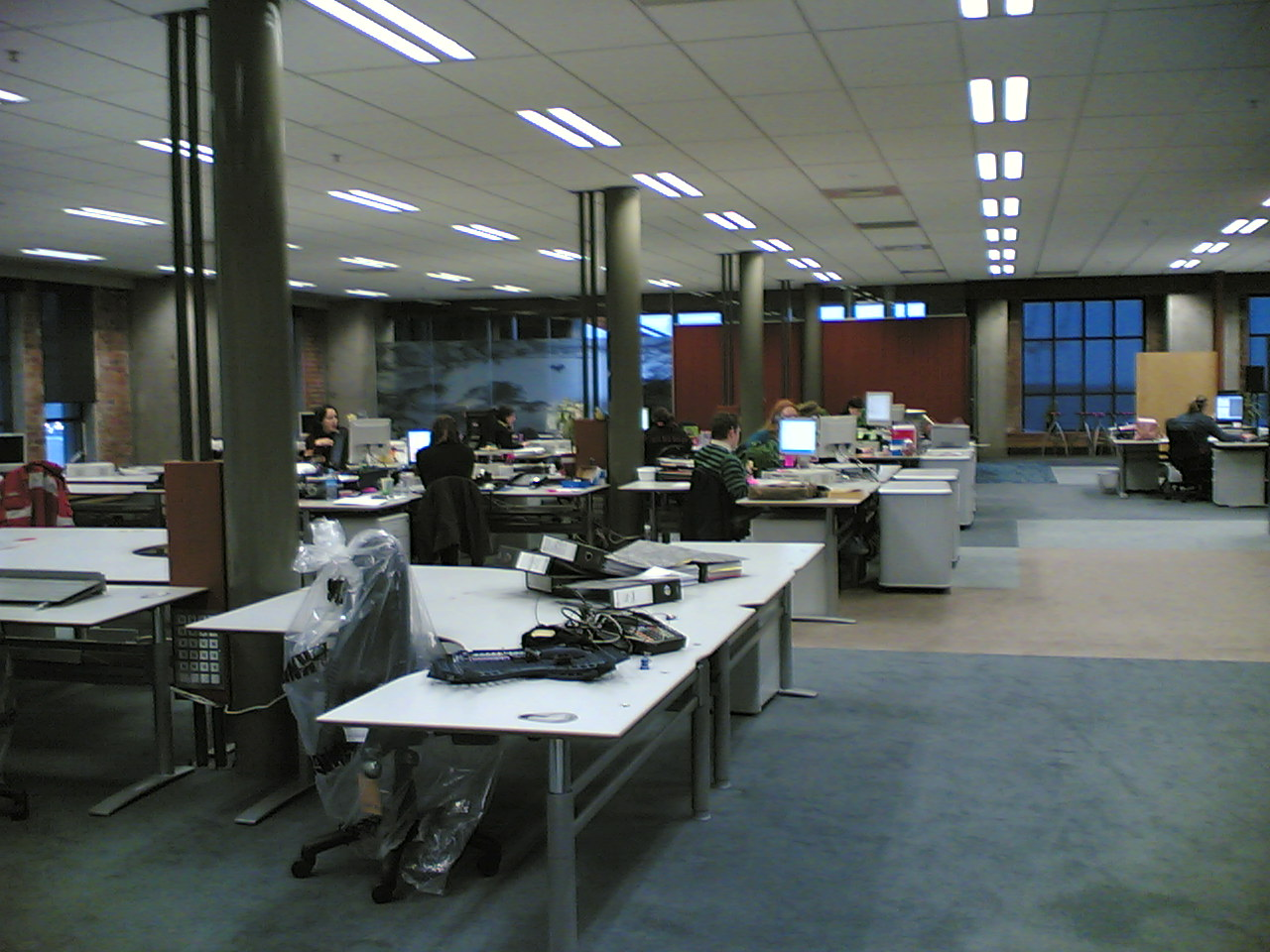 TradeMe offices, above NZX. Wellington, New Zealand.